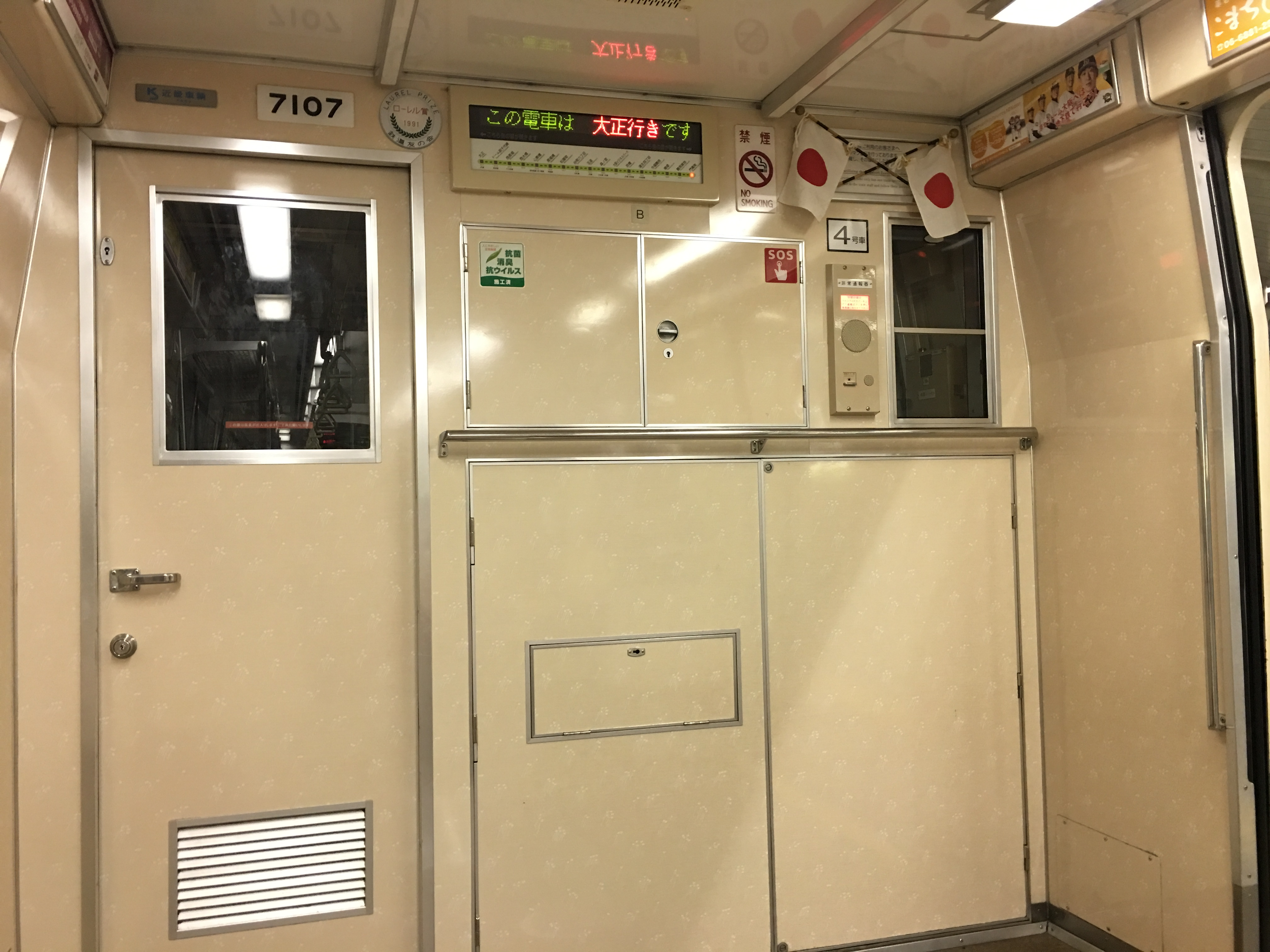 70 series car in Nagahori Tsurumi-ryokuchi Line,Osaka Municipal Subway